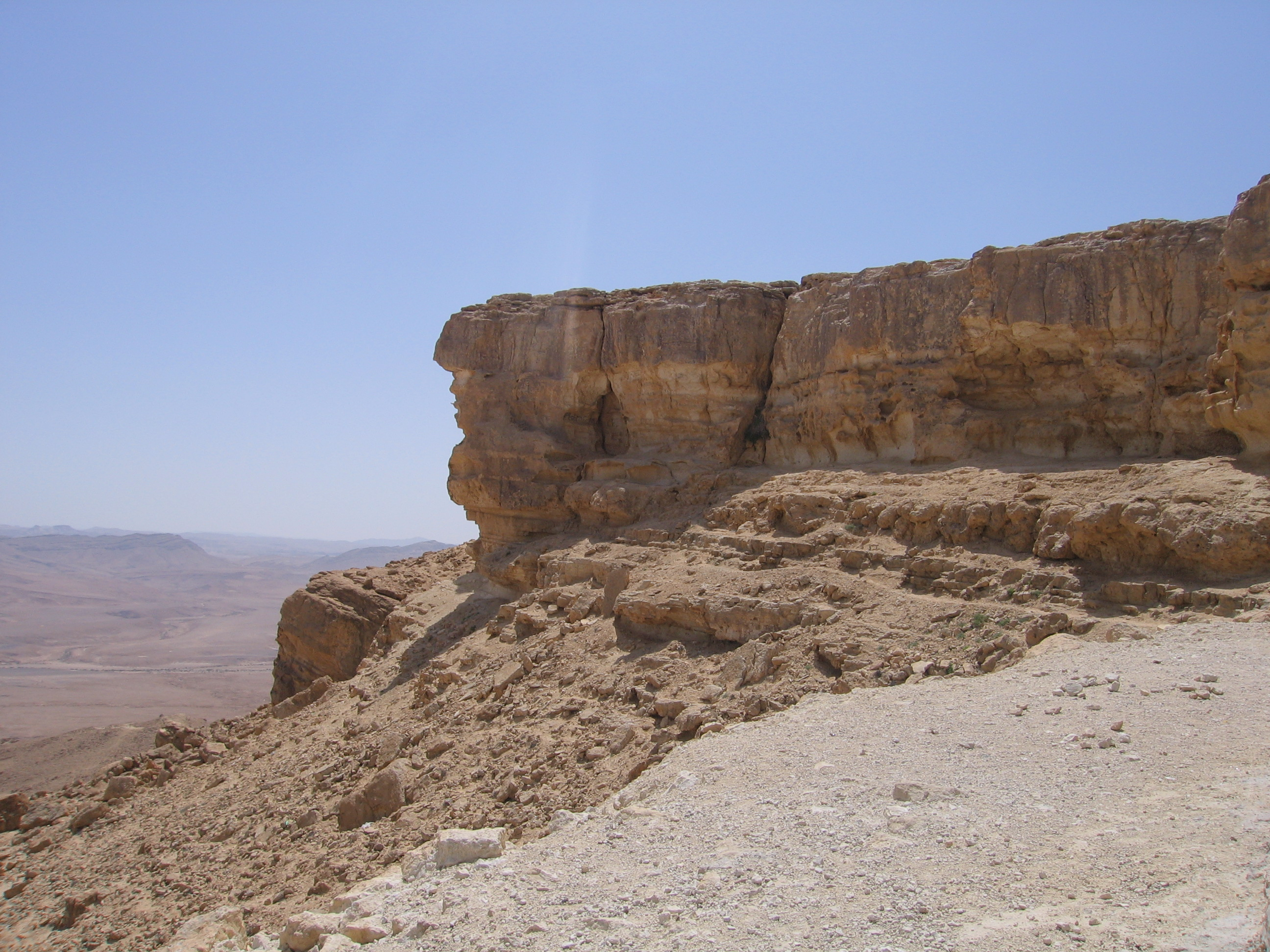 (user:bnwwf91) I took this picture when i was near Beer-Sheeva,Israel in April 2006 on the way to Eilat